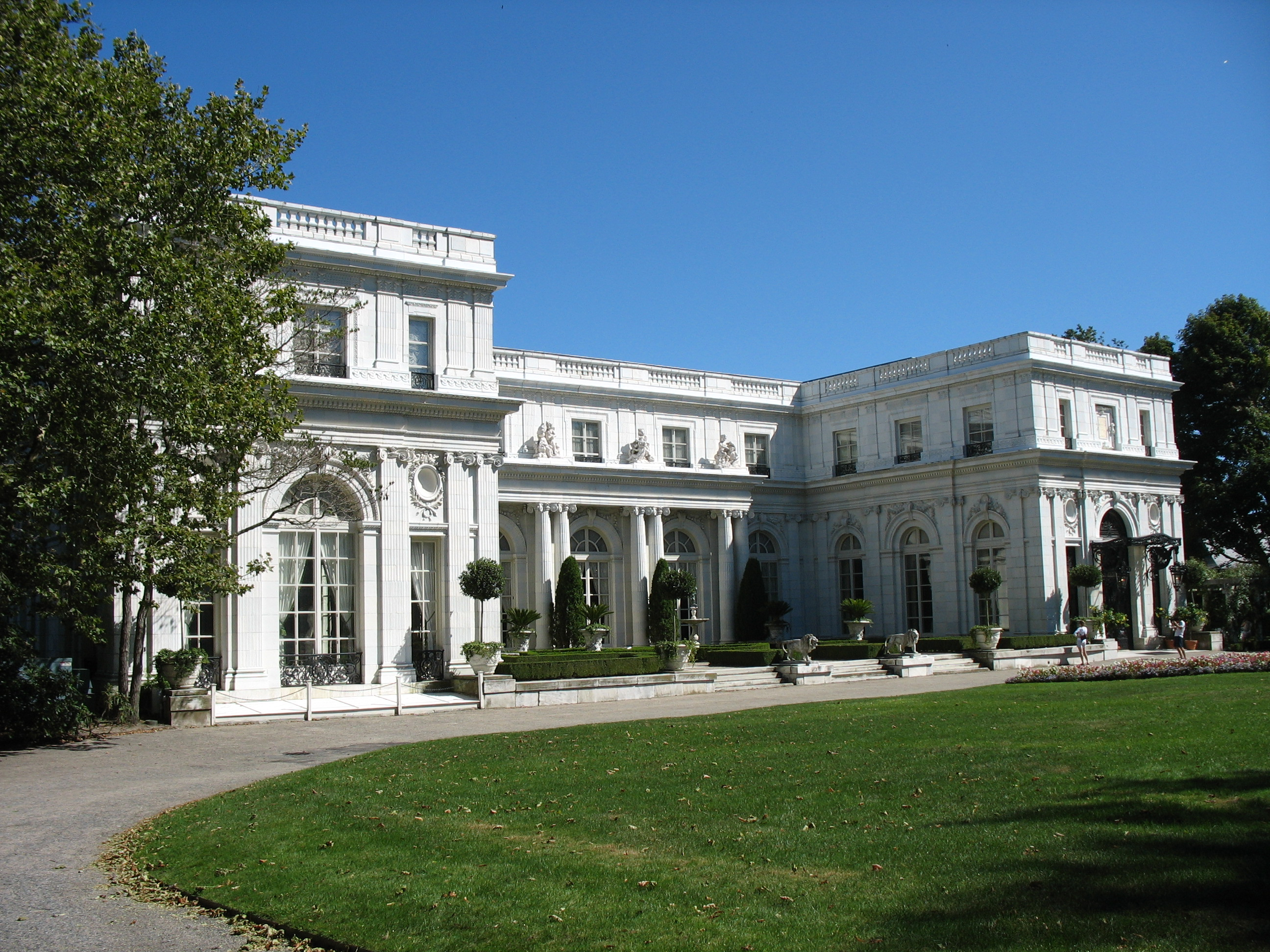 Rosecliff — facade and entry court gardens, in Newport, Rhode Island.